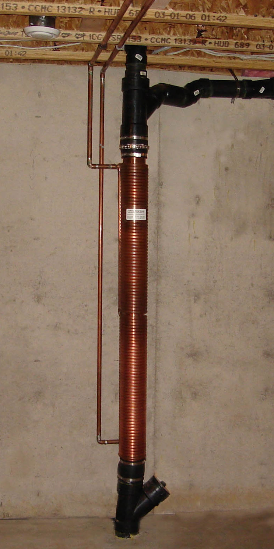 A typical hot water heat recycling unit in a family residence.